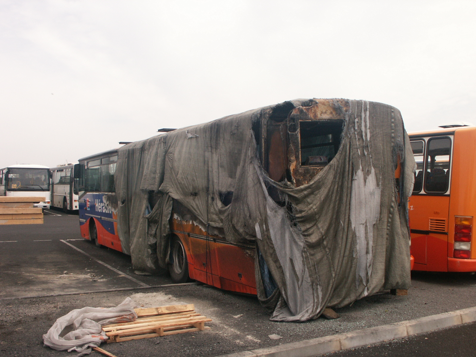 The Irisbus Axer n°023058 of Hérault Transport, following a fire at the yard — in Agde, France — on May 20, 2006.